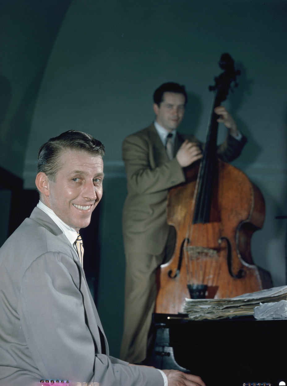 Stan Kenton and Eddie Safranski, 1947 or 1948 (Photograph by William P. Gottlieb)